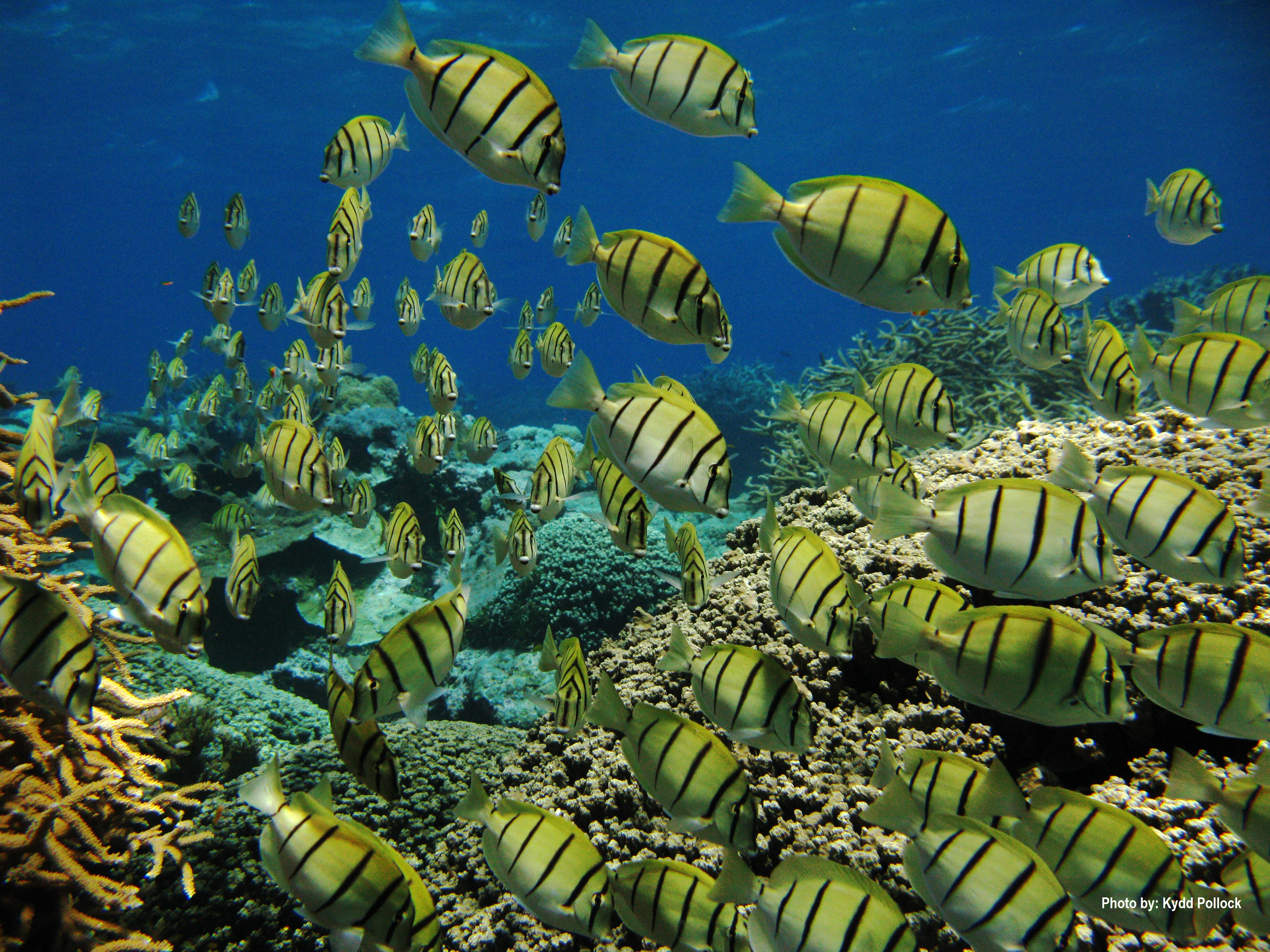 Photo credit- Kydd Pollock